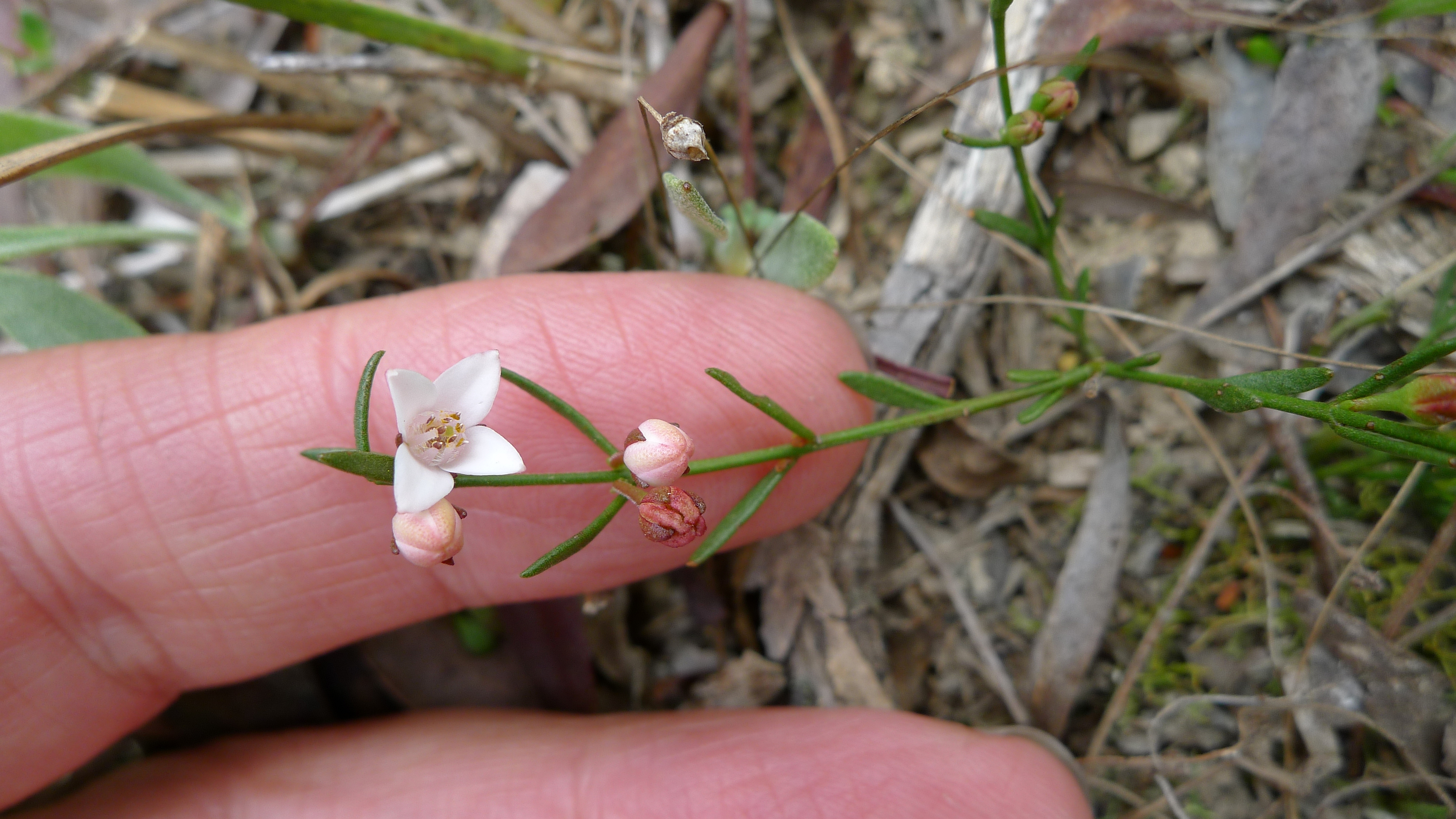 Dwarf Boronia, Boronia nana, flowers are about 12 mm across and leaves about 10 mm long. Wog Wog, Morton National Park, NSW Australia, November 2012.